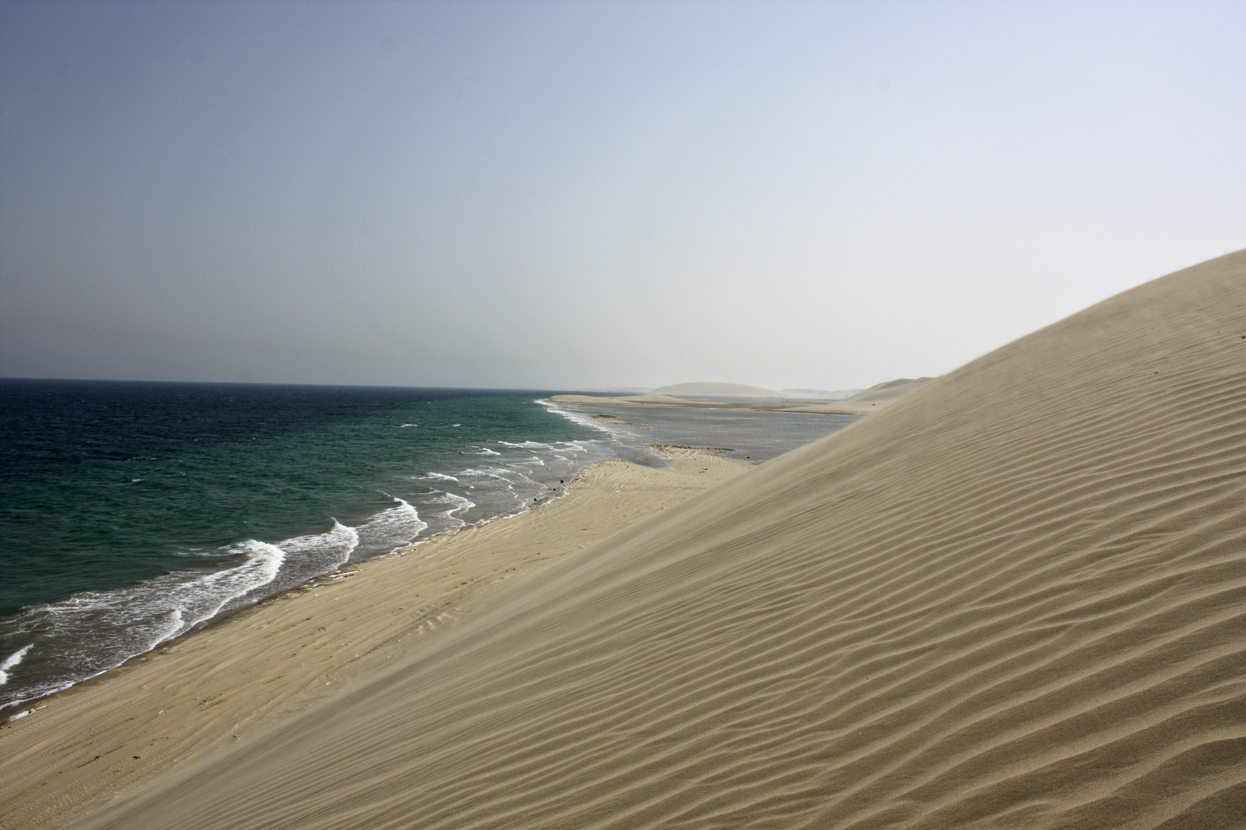 View of sandunes and coastline on Al Wakrah beach, Qatar.